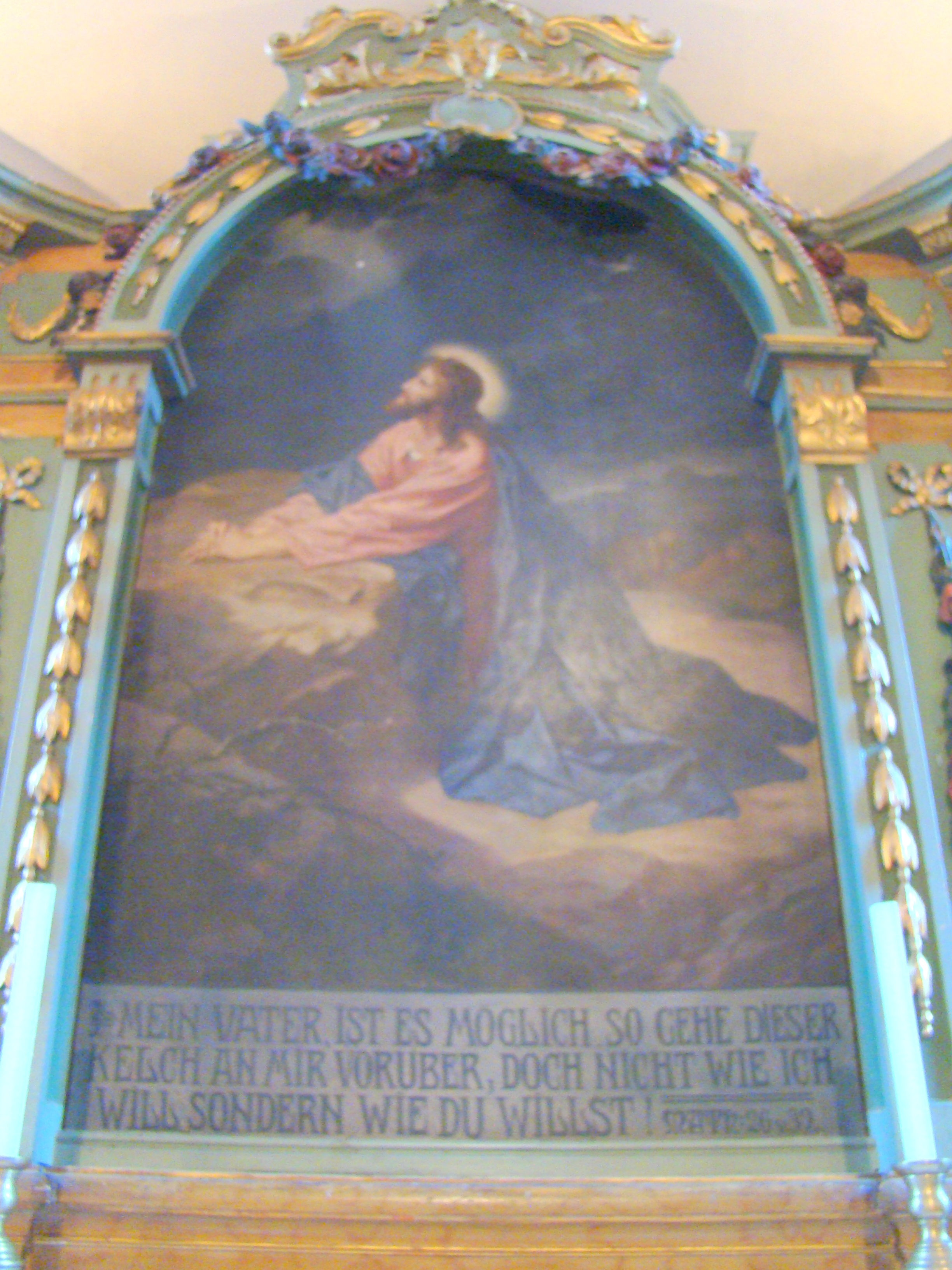 Fortified church in Măieruș, Brașov County, Romania